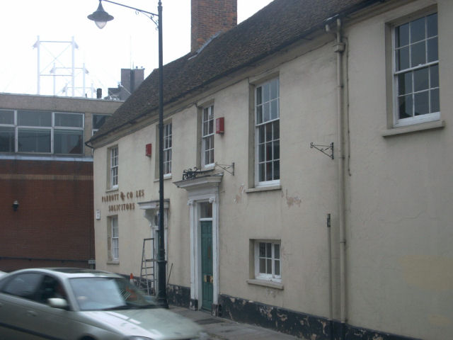 An historic house in Aylesbury, Buckinghamshire